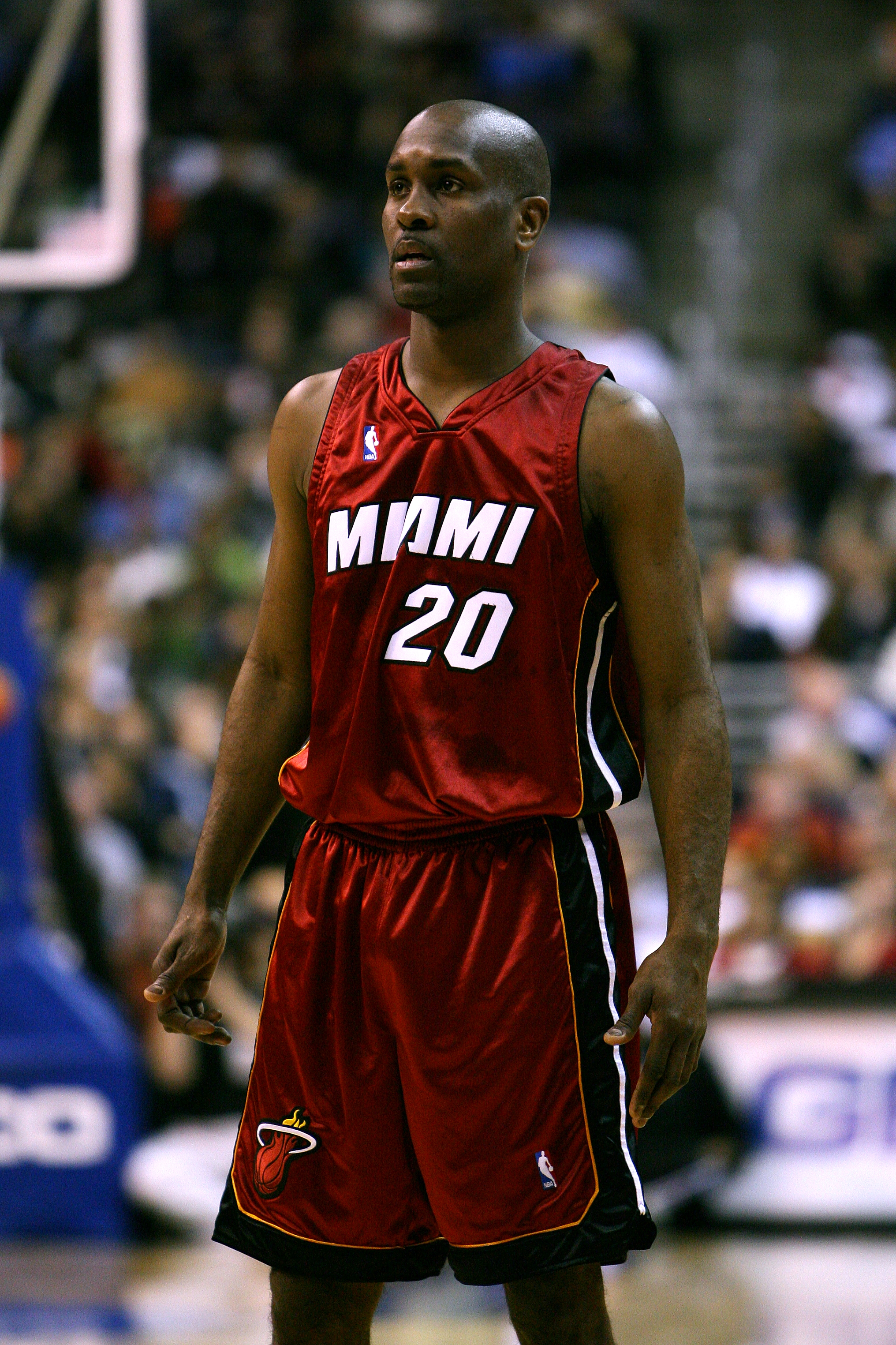 Gary Payton playing with the Miami Heat